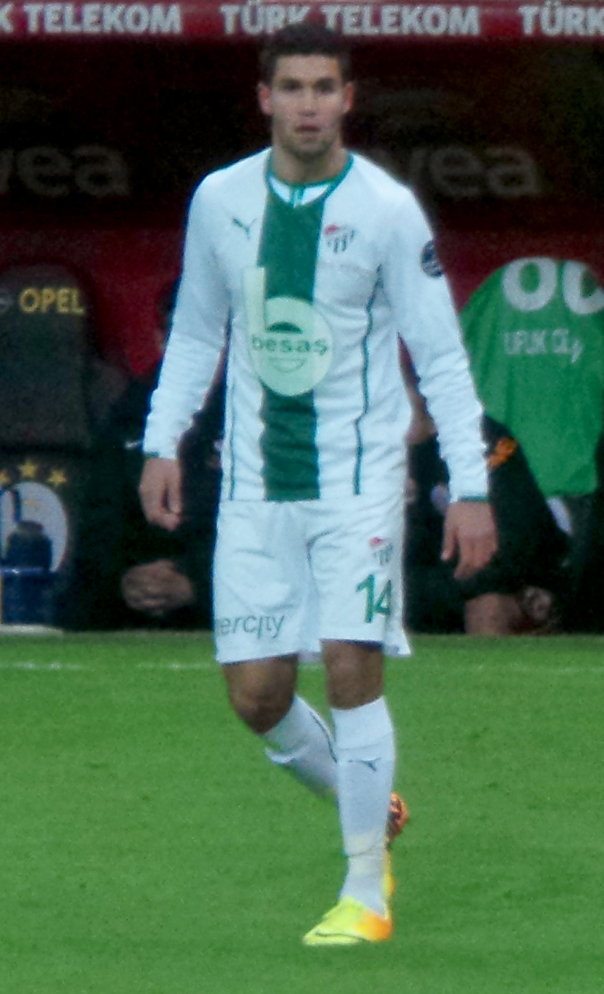 Oğuzhan Aynaoğlu, footballer.